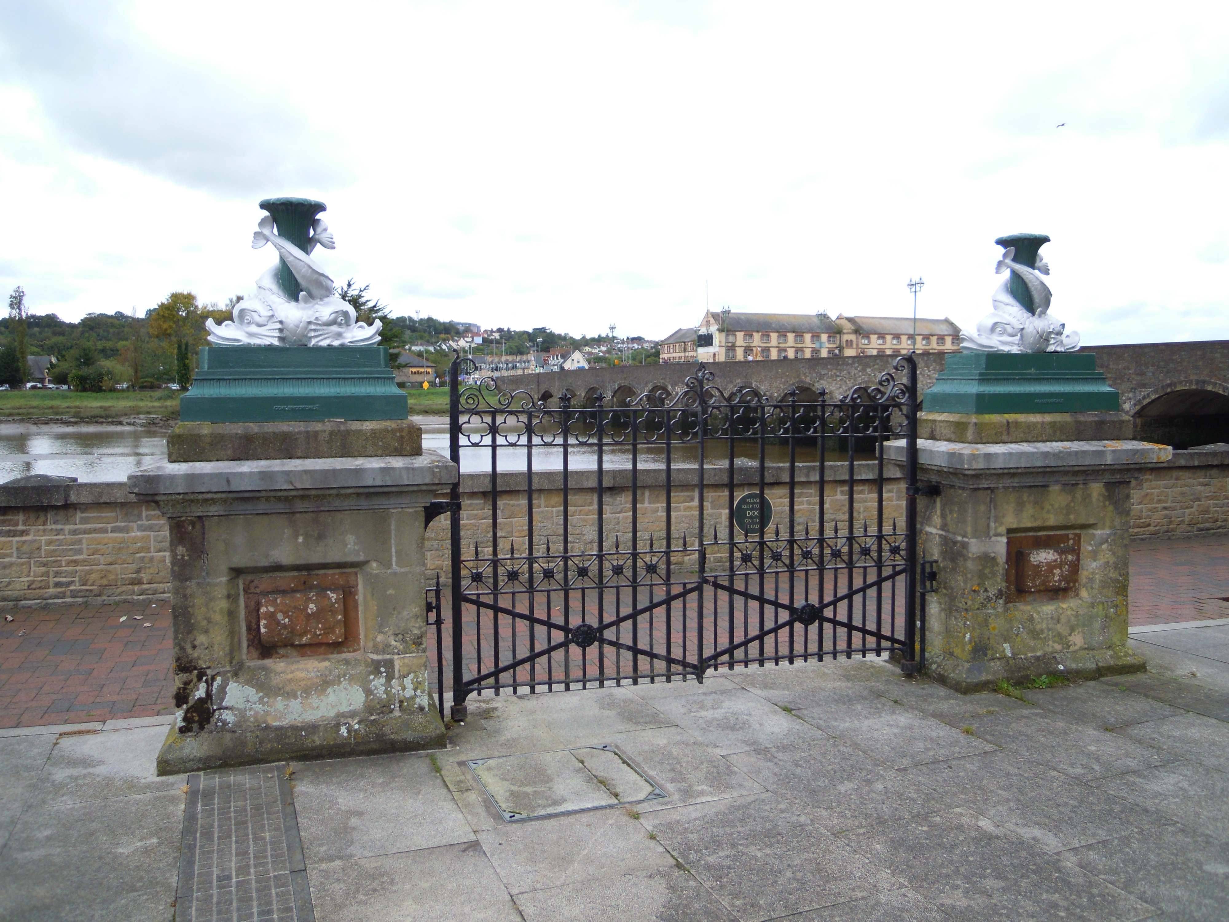 Gates And Gate Piers And Lamp Standards Approximately 18 Metres South Of South East Corner Of Museum Wikidata has entry Q26665148 with data related to this item.